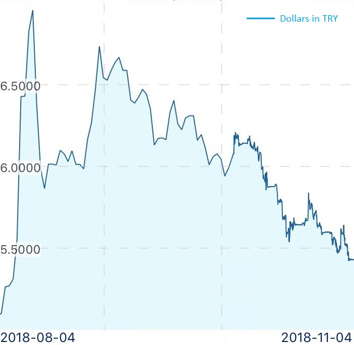 Turkish Lira regains a significant proportion of its losses within the three months after July 2018